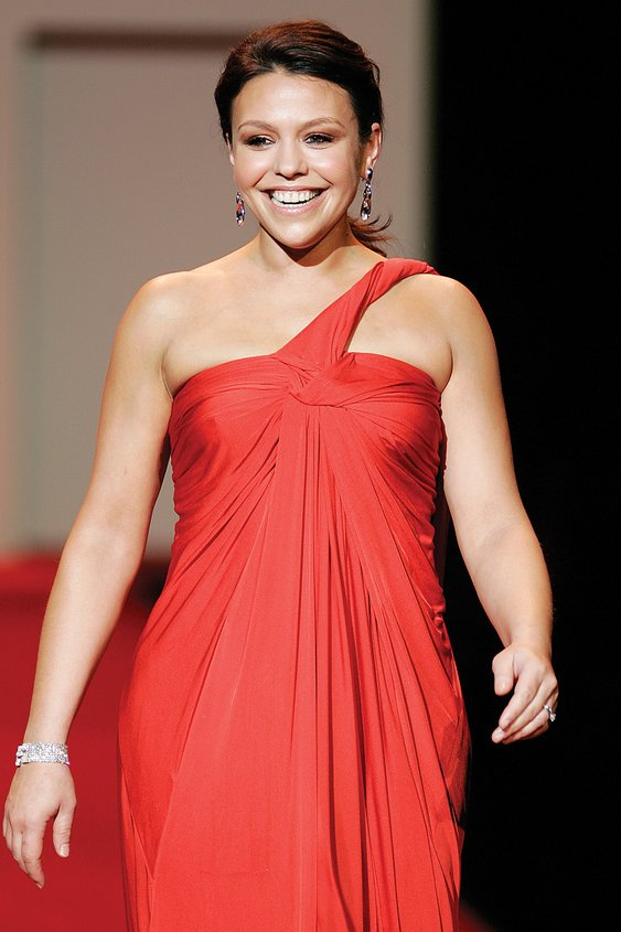 Talk show host and TV cook Rachel Ray in the 2007 Red Dress Collection for The Heart Truth